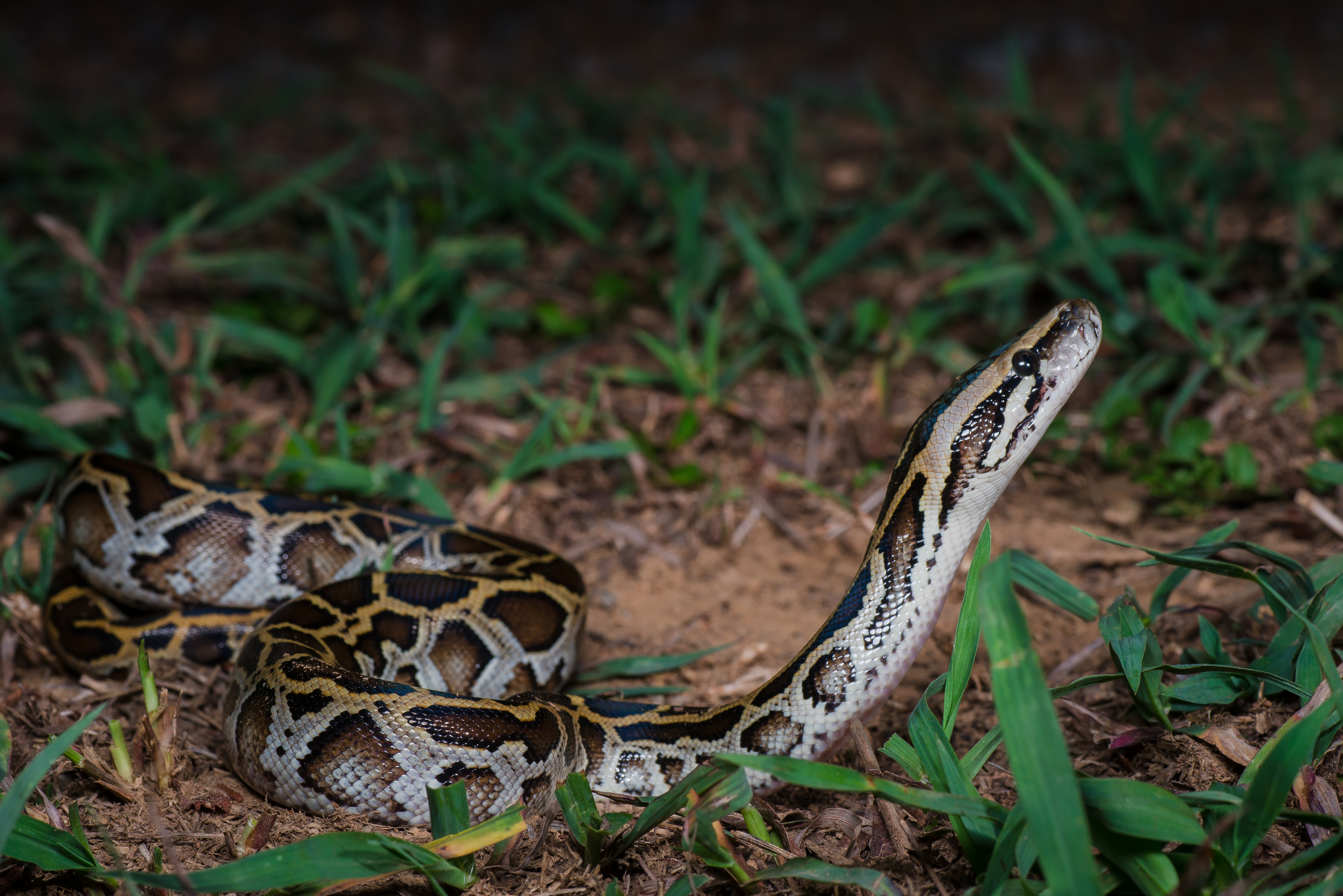 (Around 70 cm long) This photo is published under Creative Commons Attribution-Share-Alike Licence, means you are free to use this photo with attribution under same licence. For credits, please use following; Owner: Thai National Parks Link